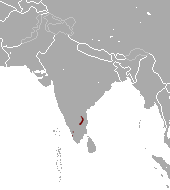 Bare-bellied Hedgehog (Paraechinus nudiventris) range, with national borders